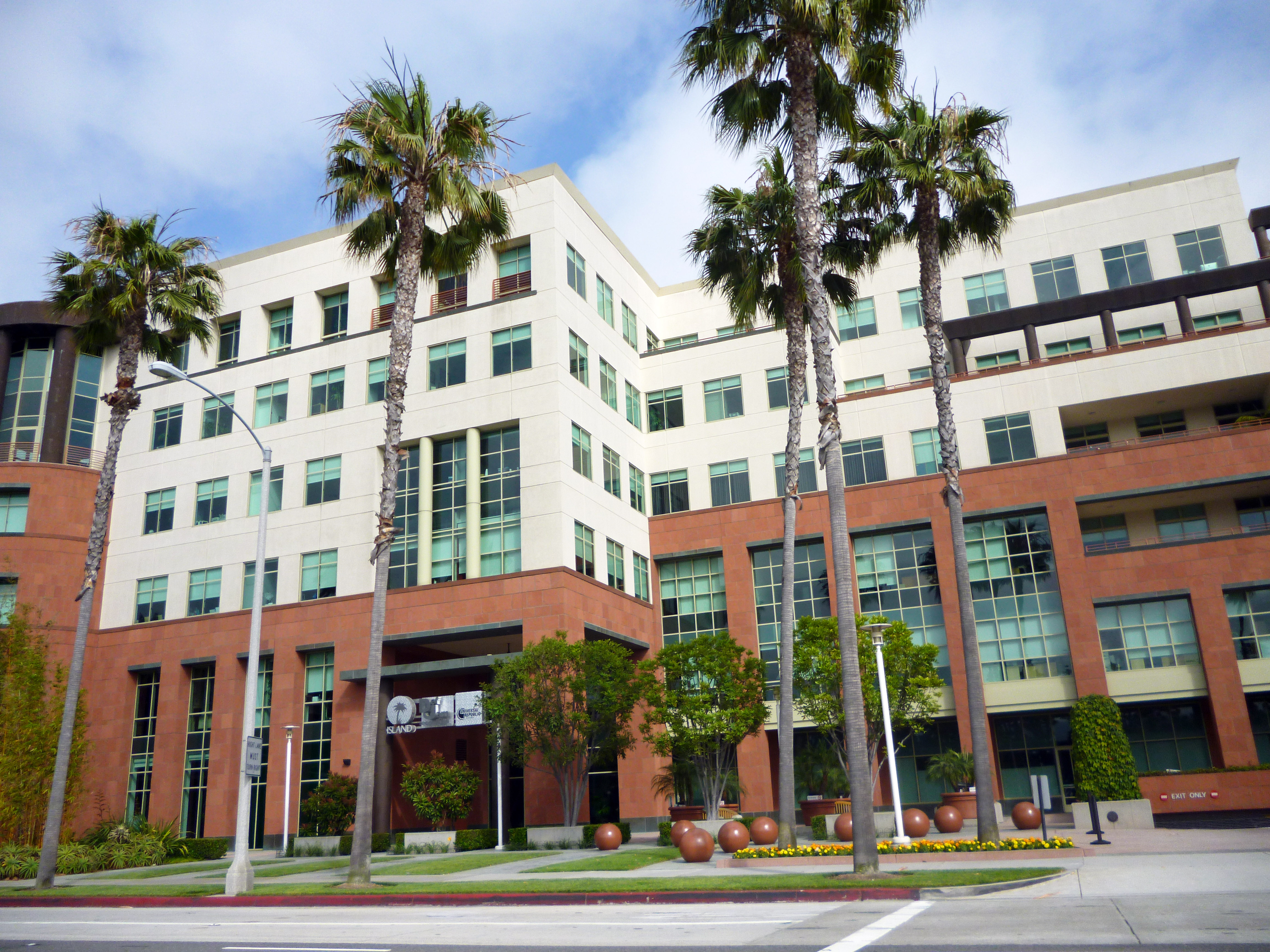 Universal Music Group headquarters in Santa Monica, California. Photographed by user Coolcaesar on June 16, 2012.